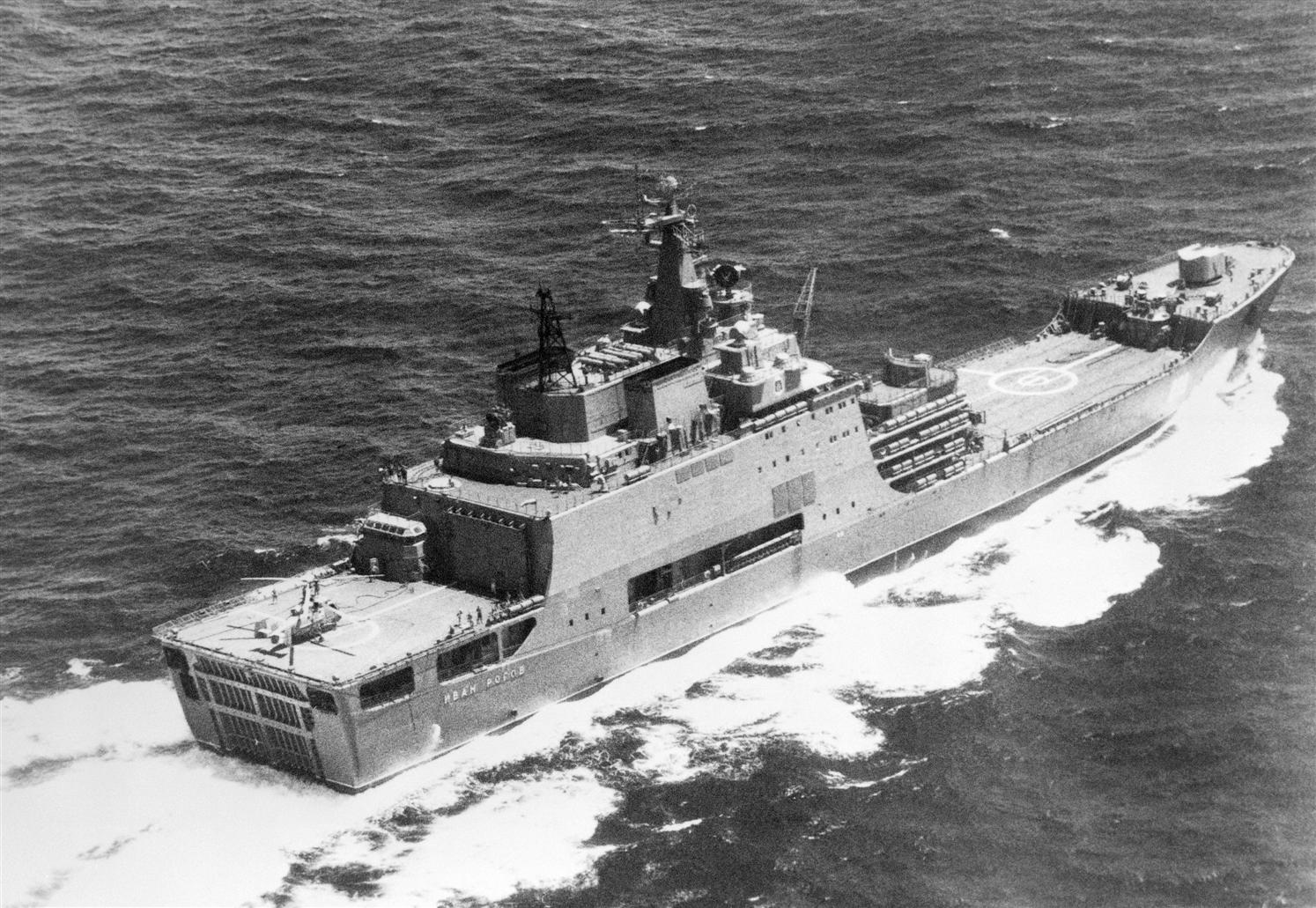 United States Department of Defense photograph of an aerial starboard quarter view of a Soviet Ivan Rogov class amphibious transport dock ship underway. Source: defenseimagery.mil.